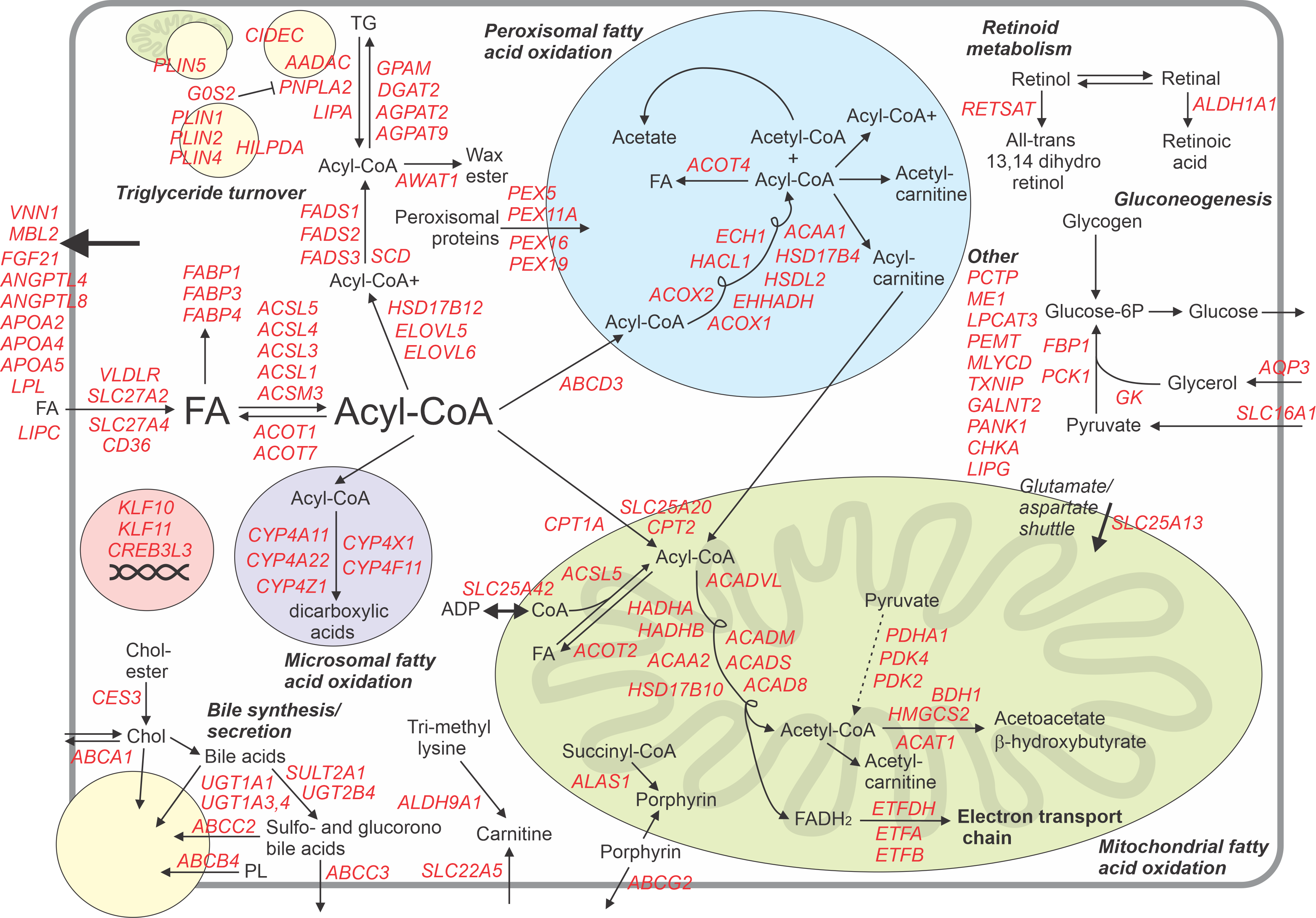 Detailed overview map of metabolic genes upregulated by PPARα in human hepatocytes. The map was created using the published literature, including PMID: 21533120, 19710929, 16197558, 23567314, 20110263, and publicly available transcriptome datasets. Many genes shown, though certainly not all genes, have been identified as direct PPARα target genes characterized by a functional PPAR response element.